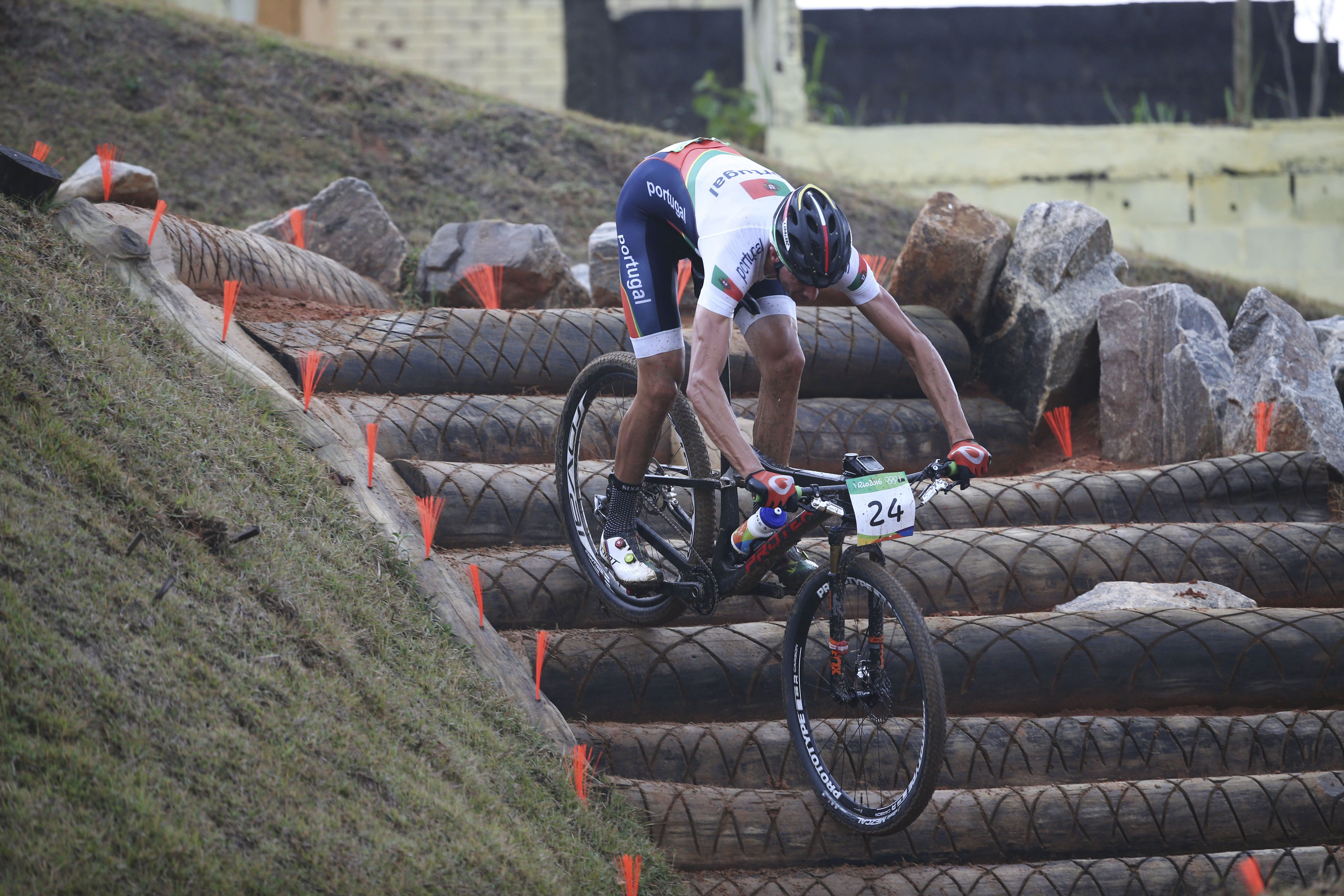 Cycling at the 2016 Summer Olympics – Men's cross-country